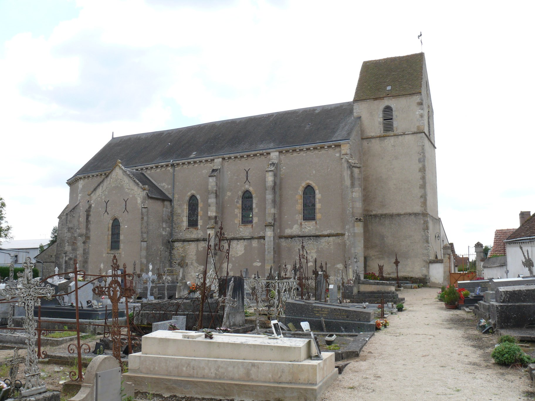 Our Lady's church of Vrigny (Loiret, Centre-Val de Loire, France).